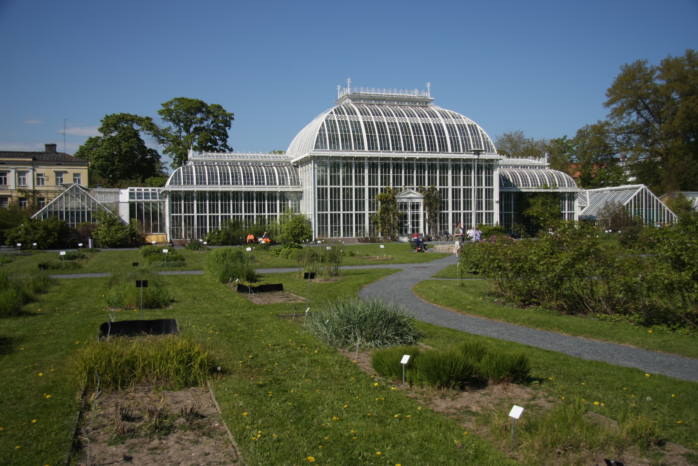 The University of Helsinki Botanical Garden at Kaisaniemi